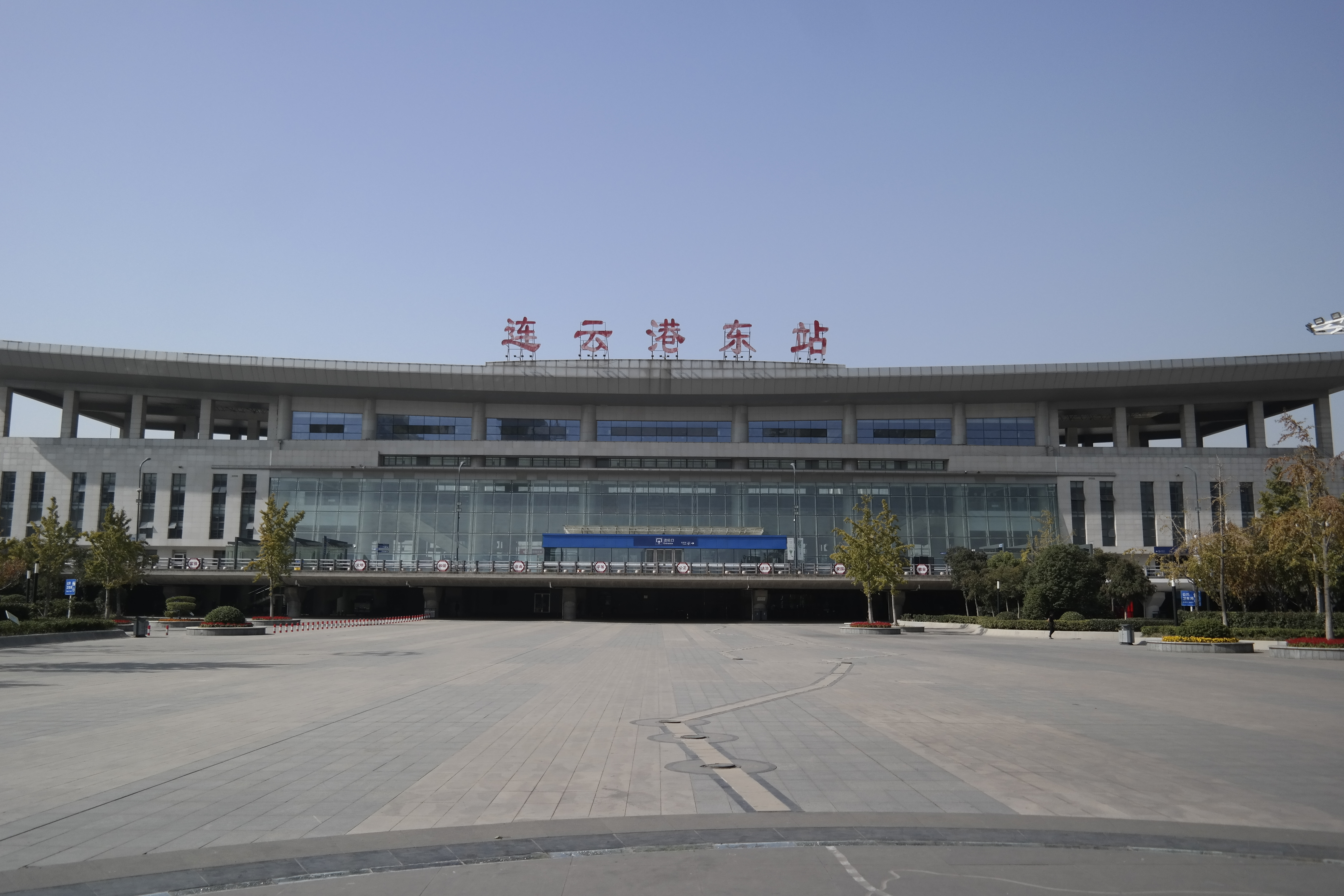 Lianyungangdong Railway Station